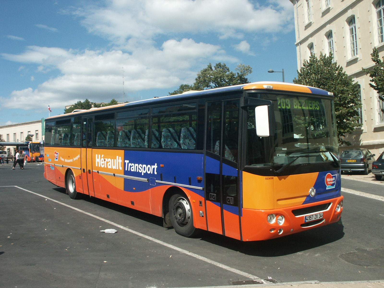 The Irisbus Axer n°023058 of Hérault Transport — in Béziers, France — on September 15, 2004.